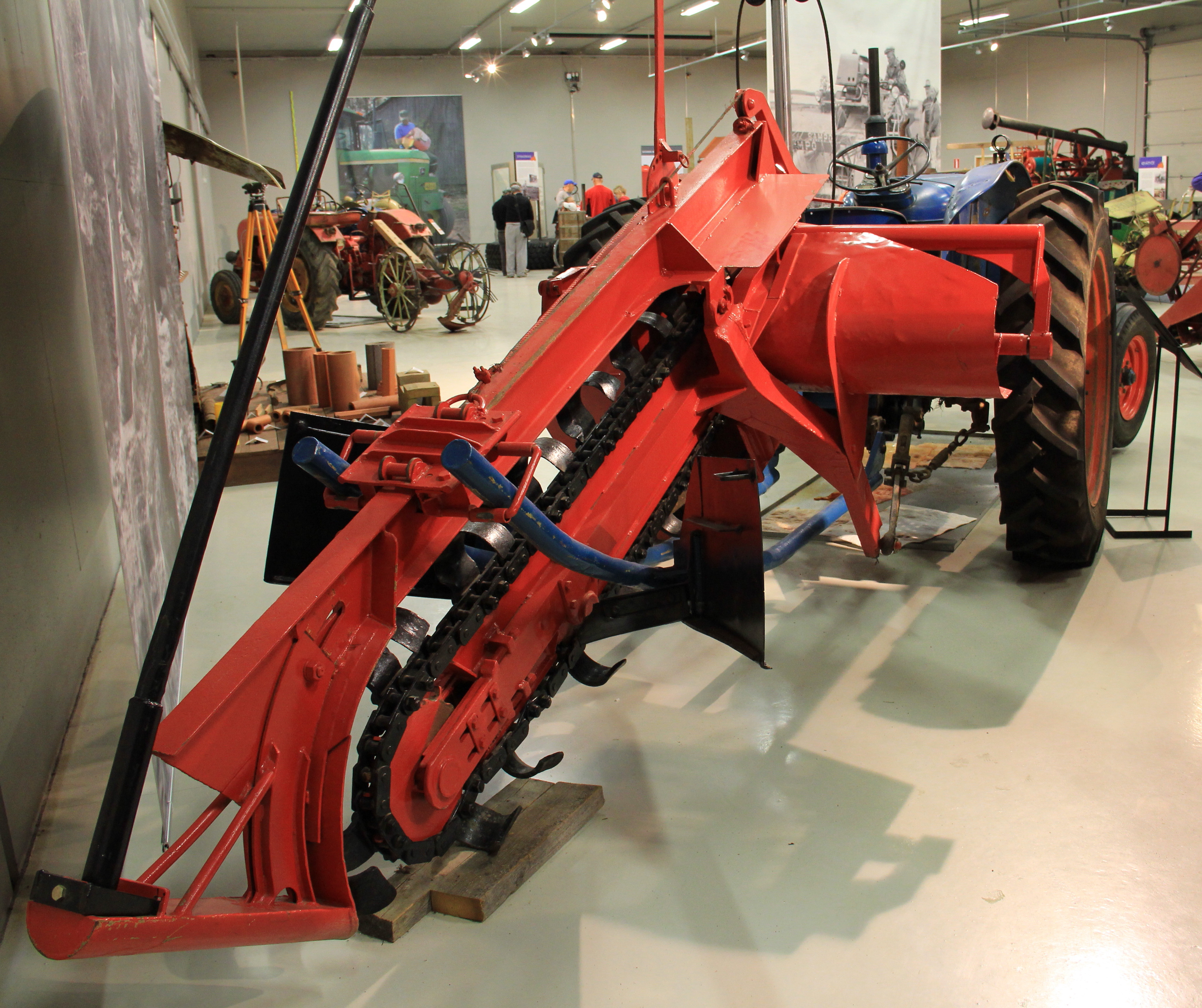 Mara, light tractor-pulled trencher, used in agriculture for French drains in fields. Manufactured since cs. 1950's. Made by Kurpan Konepaja in Loimaa, Finland. On display in Sarka, the Finnish museum of agriculture, Loimaa, Finland.